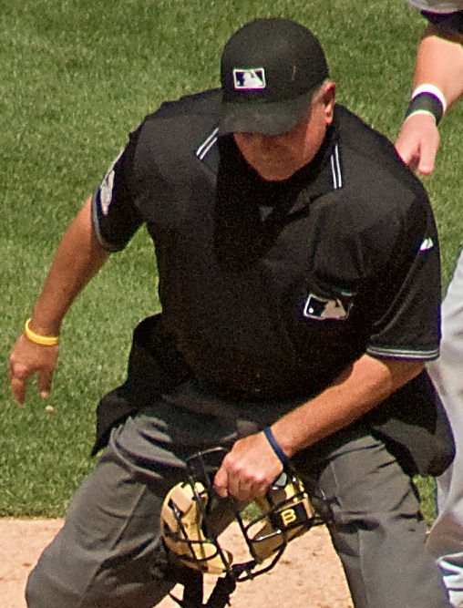 MLB umpire Rick Reed - June 10, 2007.